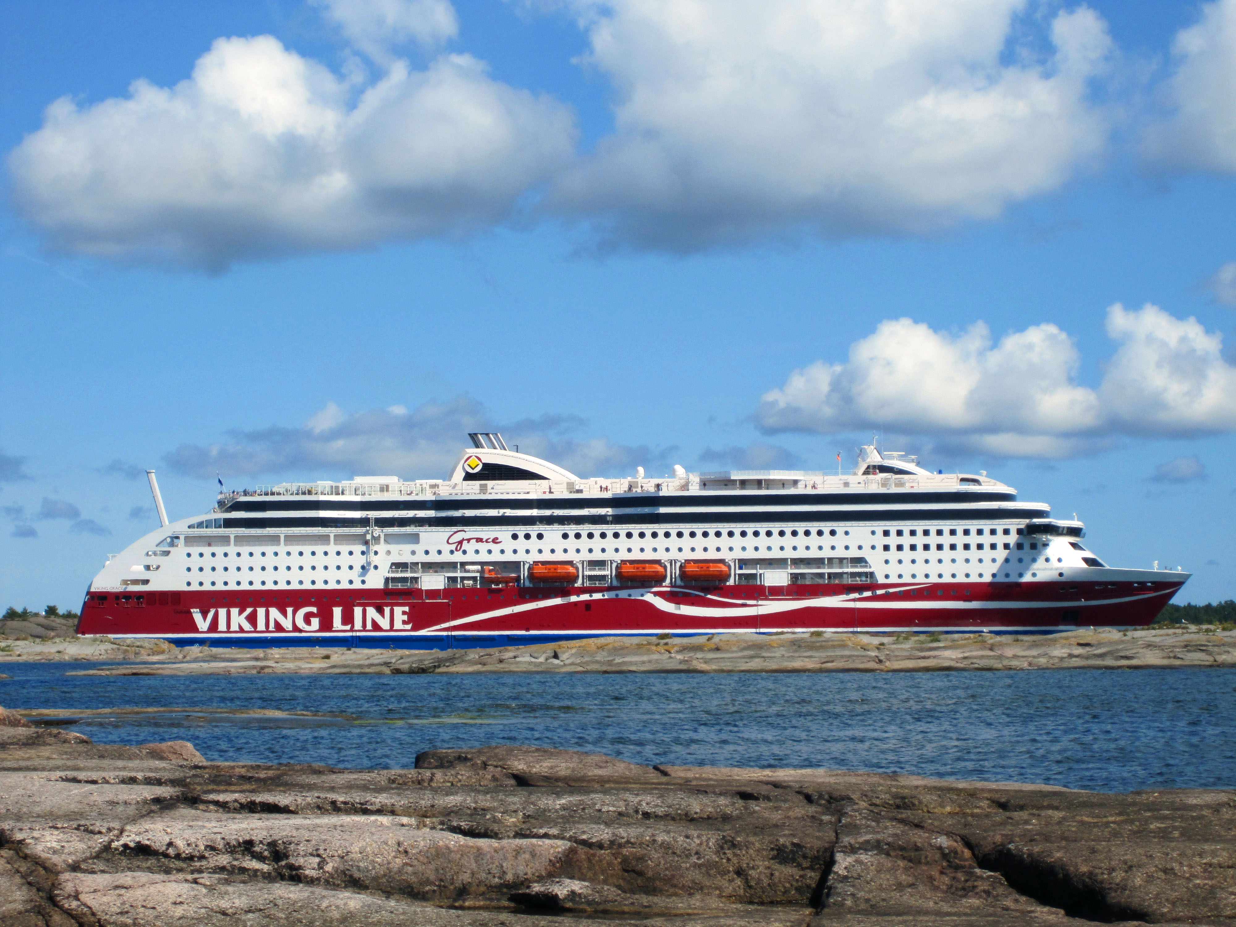 M/S Viking Grace passes outside the skerries of Kobba Klintar, Mariehamn, Åland, Finland, July 2013